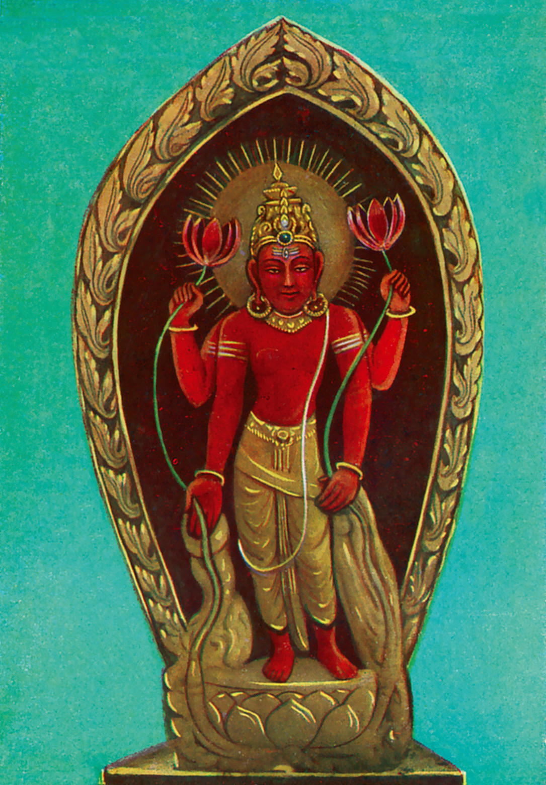 Mahasiddha Matsyendranath